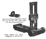 Winchester No. 82A folding peep sight